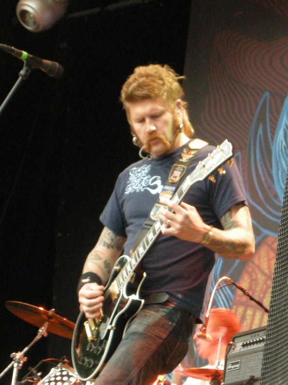 Bill Kelliher, Mastodon, at Sonisphere Sweden 2009